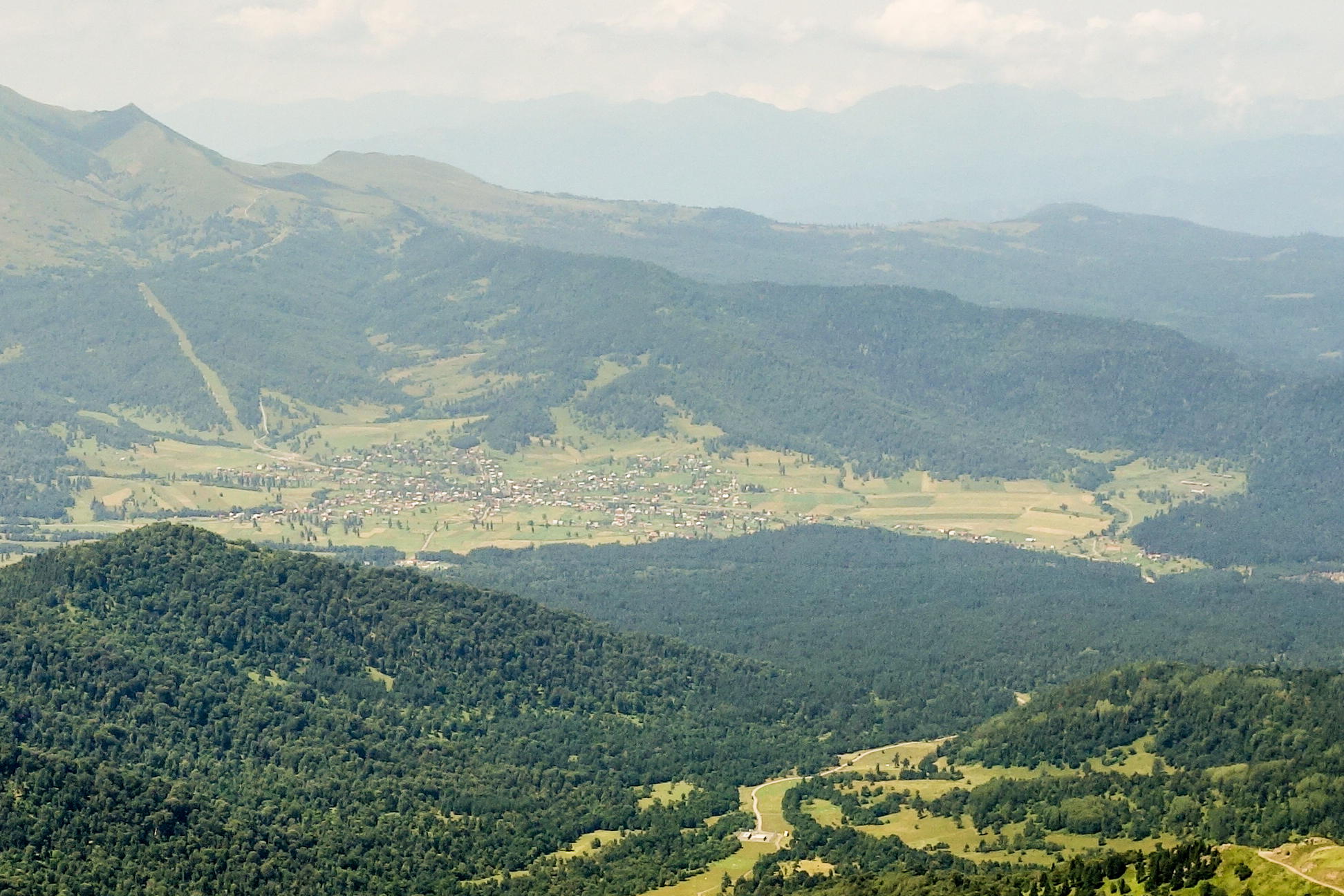 Tsikhisjvari Village seen from Mount Tskhratskaro, Samtskhe-Javakheti, Georgia